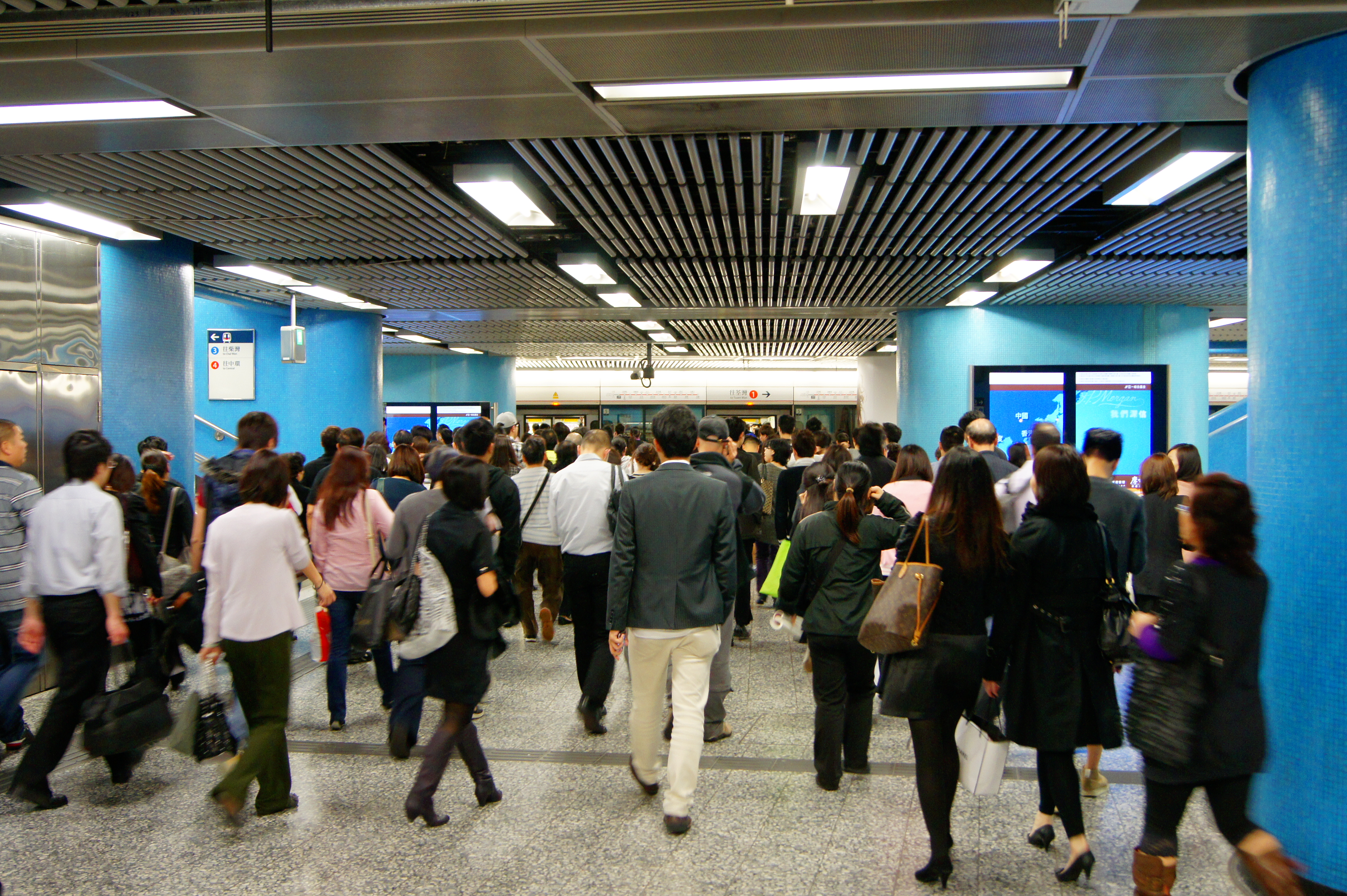 MTR Admiralty Station lower platform